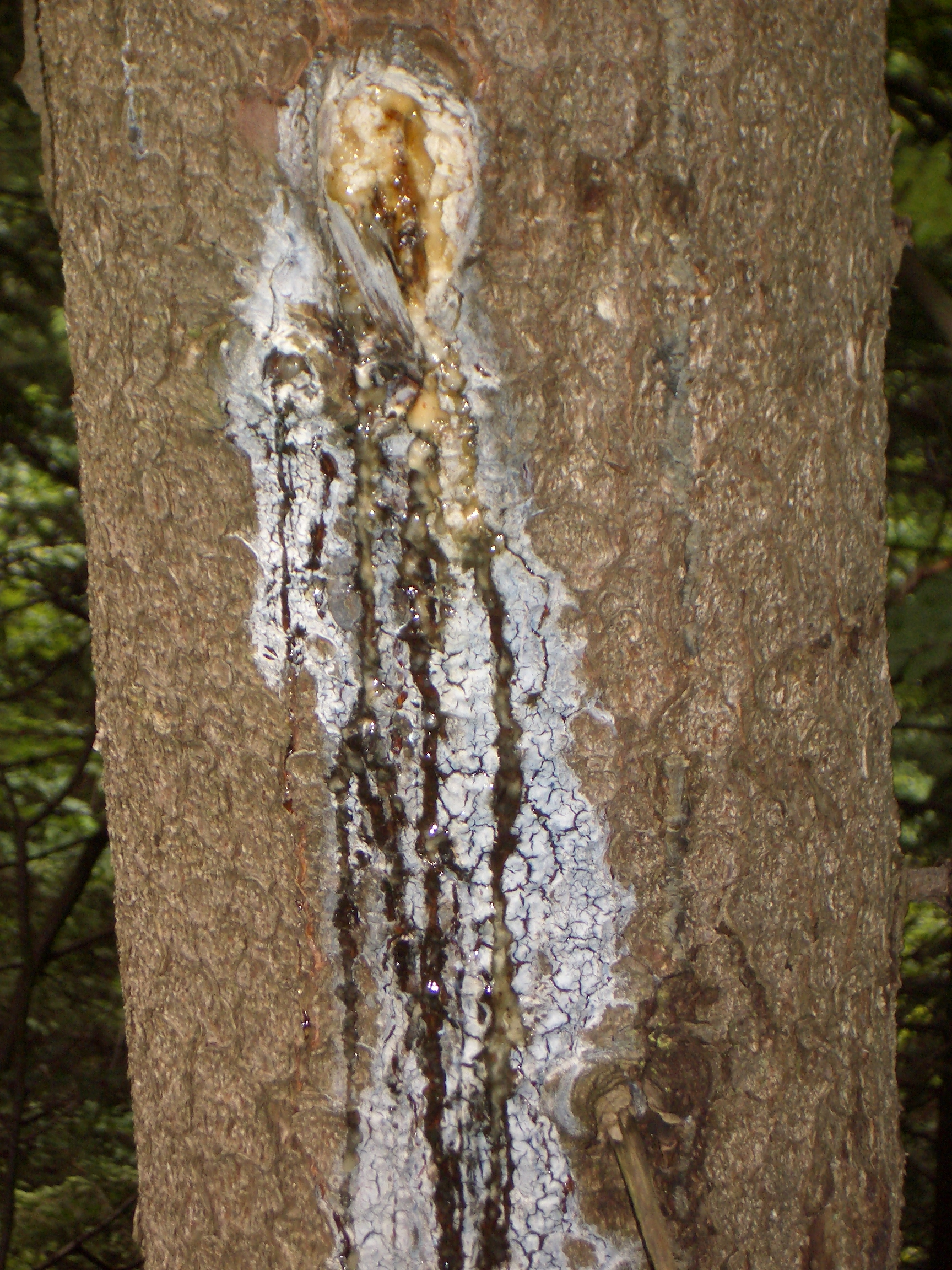 Picea abies bark with resin bleeding from wound. Taken near Kranjska Gora, Julian Alps, Slovenia in Summer 2004.